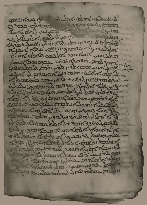 Syriac Sinaiticus - fol. 82b - Matthew 1.1-17a (superimposed: Life of Euphrosyne)